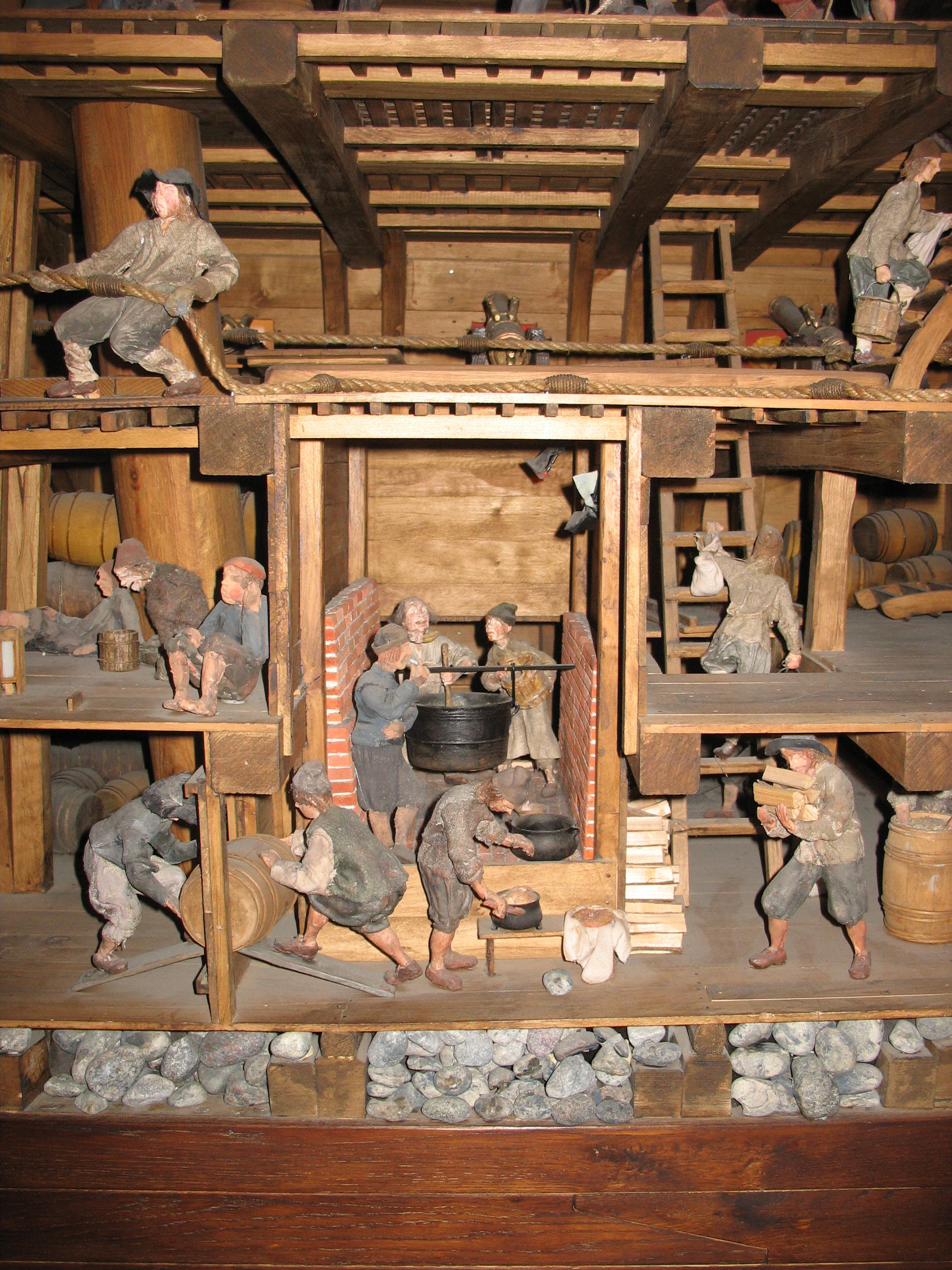 A close up of a cutaway model of the 17th century warship Vasa on display at the Vasa Museum in Stockholm. The brick structure in the middle of the picture, resting on the orloop deck, right above the ballast hold, houses the galley (ship kitchen), here fitted with a large cauldron.